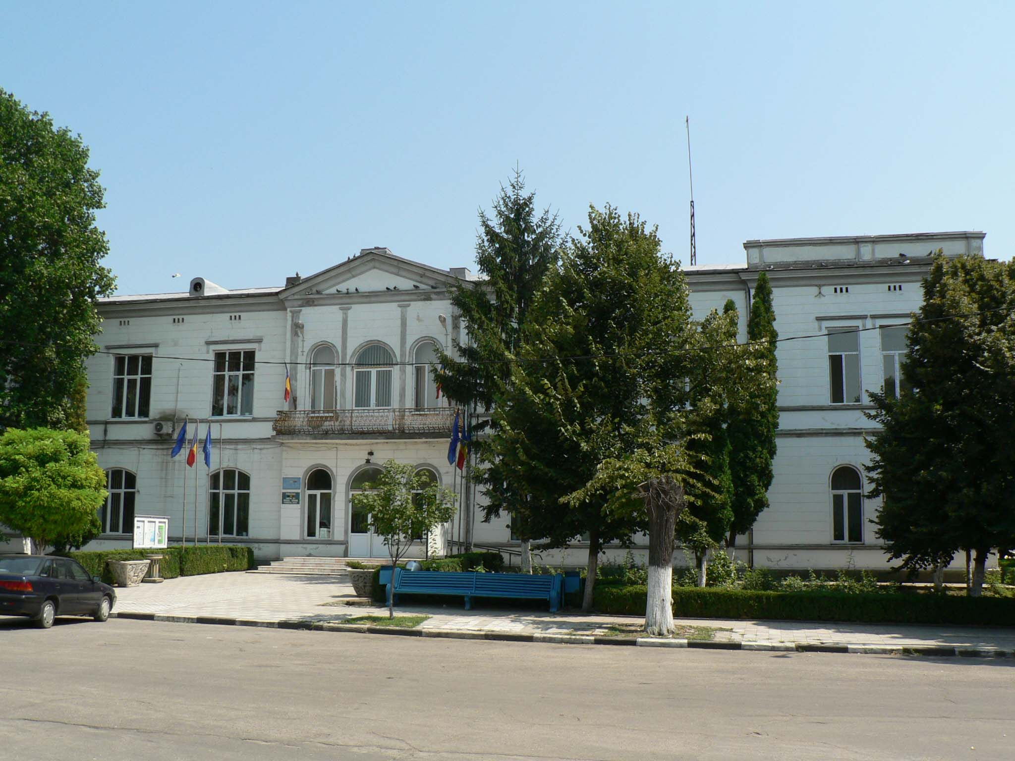 Corabia City Hall.